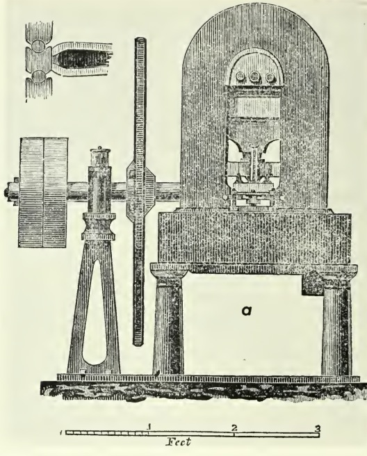 Coining press designed for the Philadelphia Mint